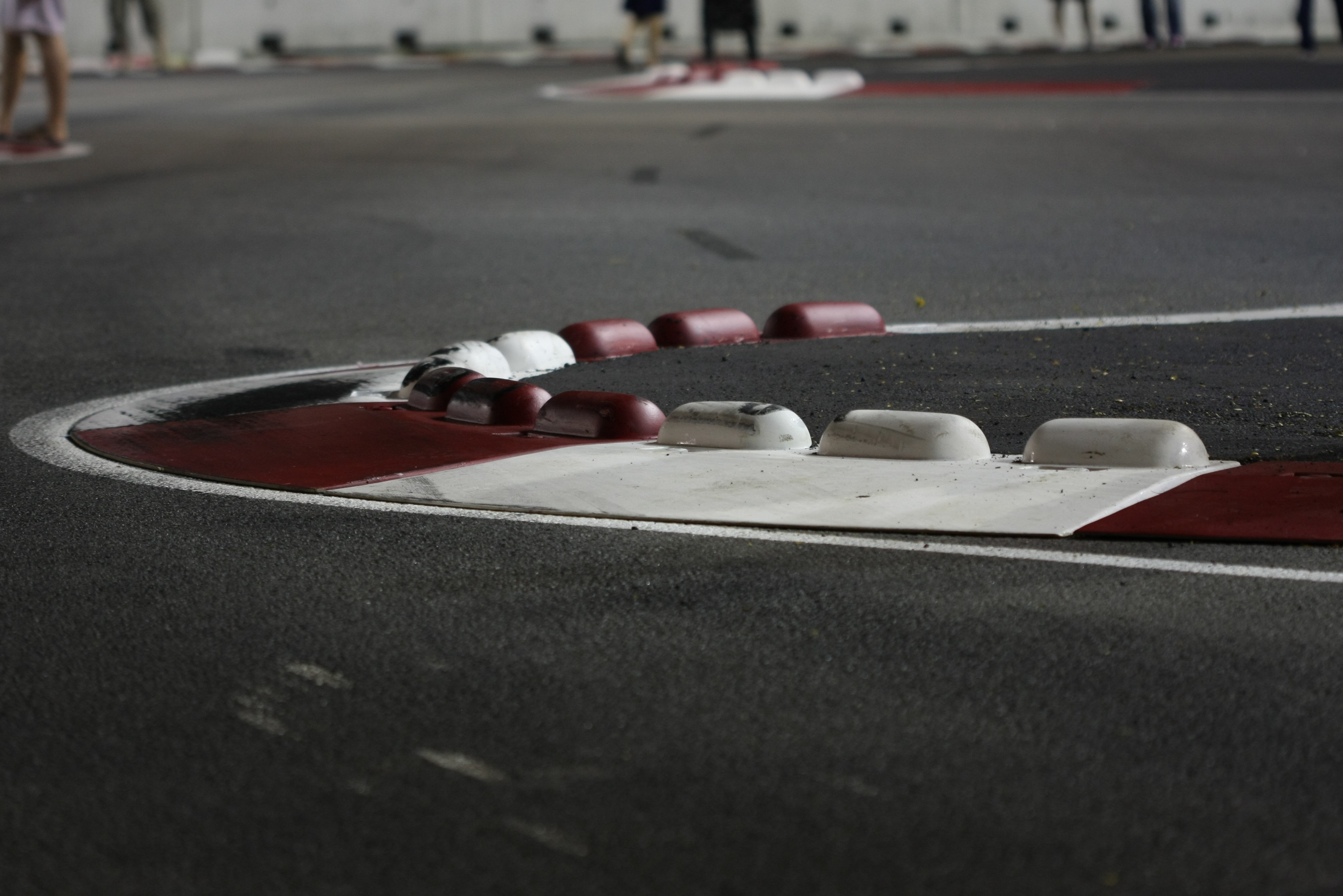 Kerbs on Turn 10 chicane of Singapore Street Circuit during 2008 Singapore Grand Prix